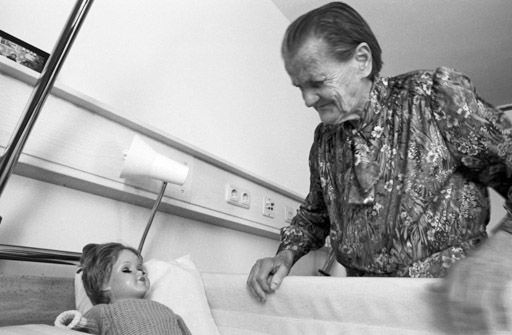 Resident of a nursing home in Munich (Germany)